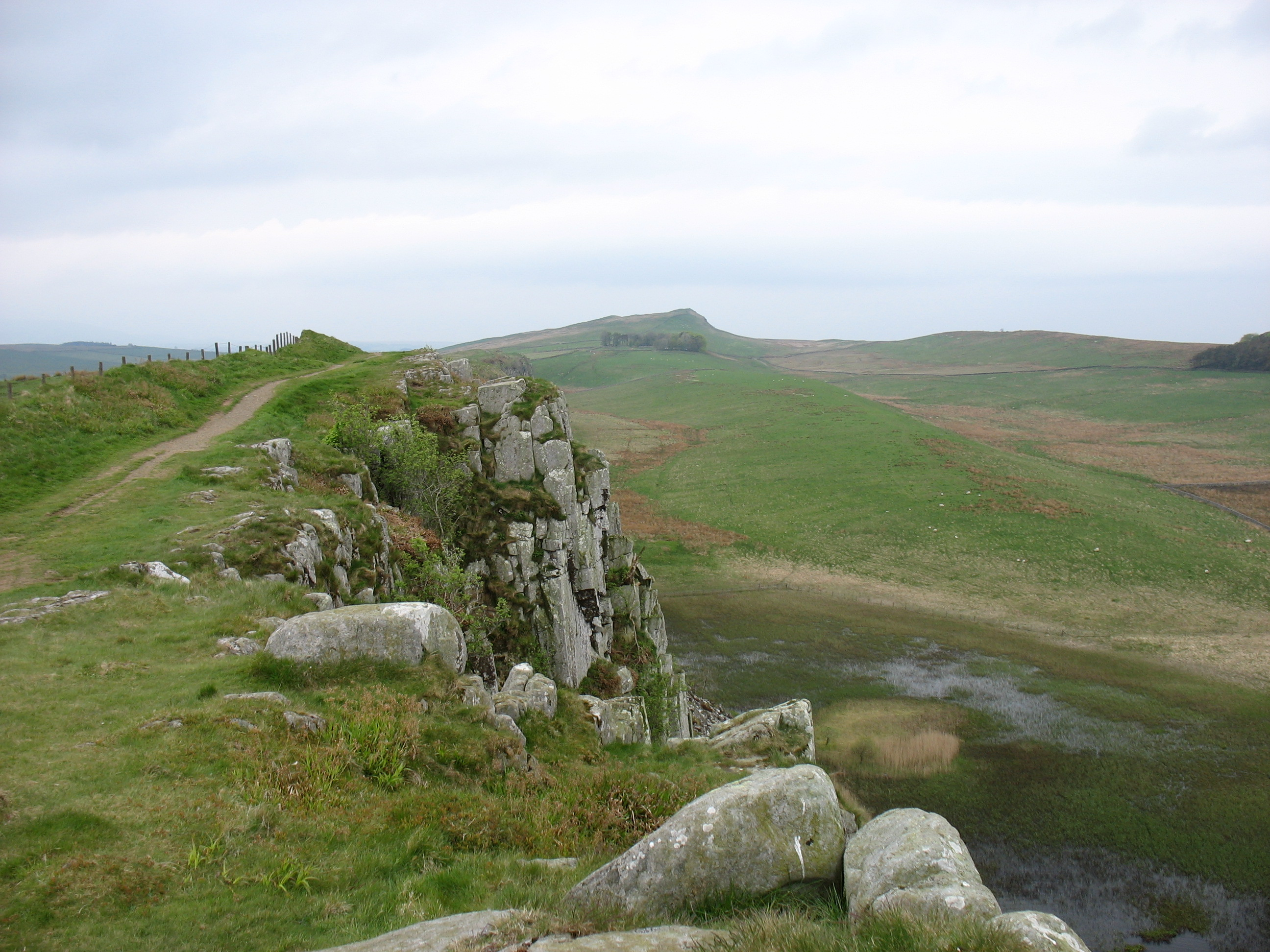 The Hadrian's Wall Path above Crag Lough